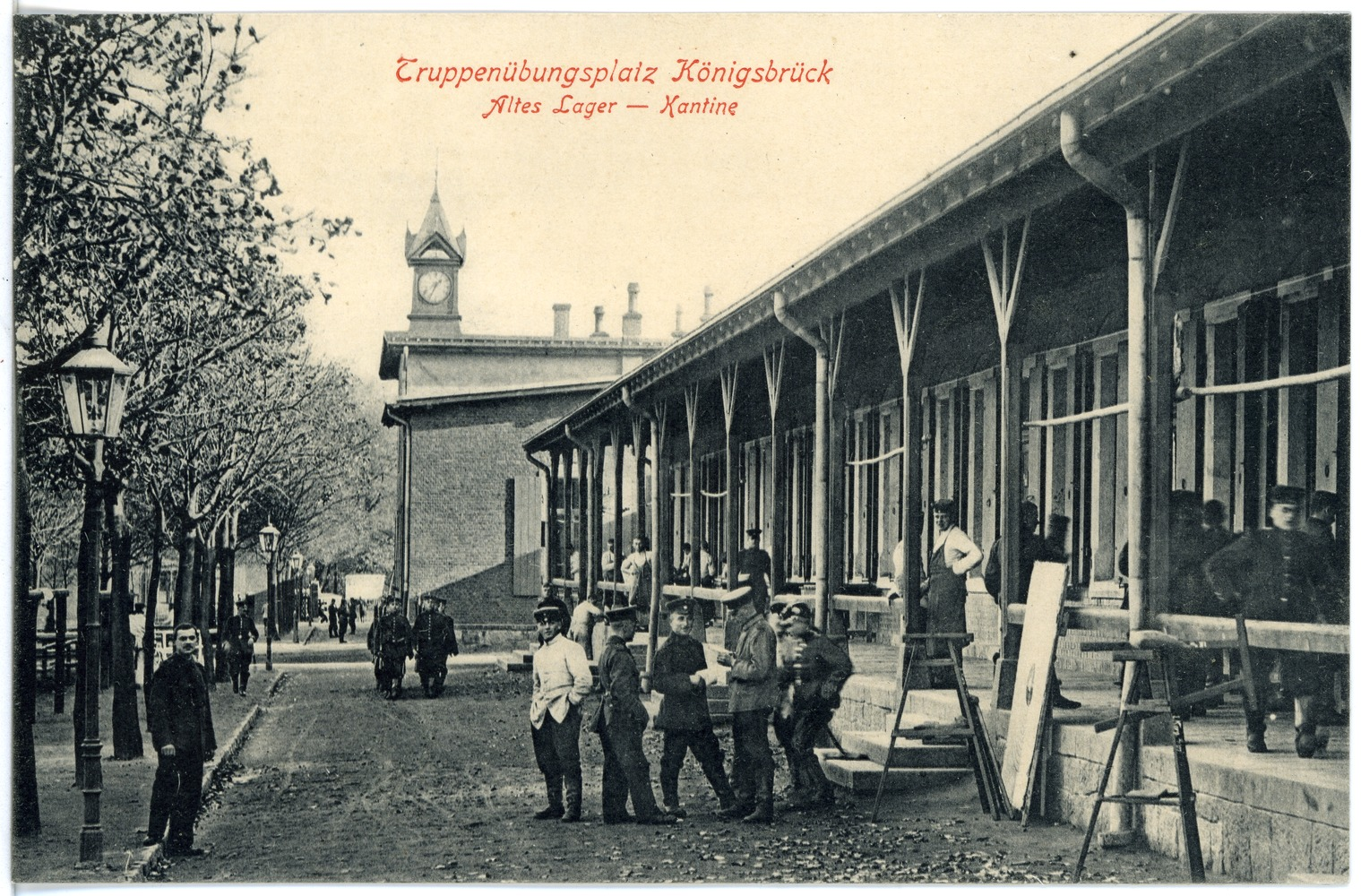 This postcard is from publisher Brück & Sohn in Meißen ( This postcard has a unique number 17214 and is available in a higher resolution at the publisher. This images was uploaded in a cooperation project between Wikipedians and the publisher.